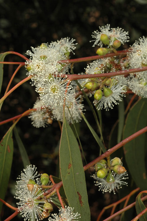 Flowers and buds of Eucalyptus bridgesiana at Barry Drive near ANU, Canberrra